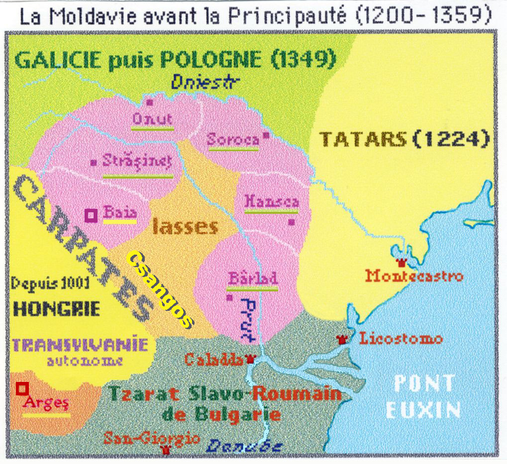 Map of Moldova/Moldavia 1200-1359